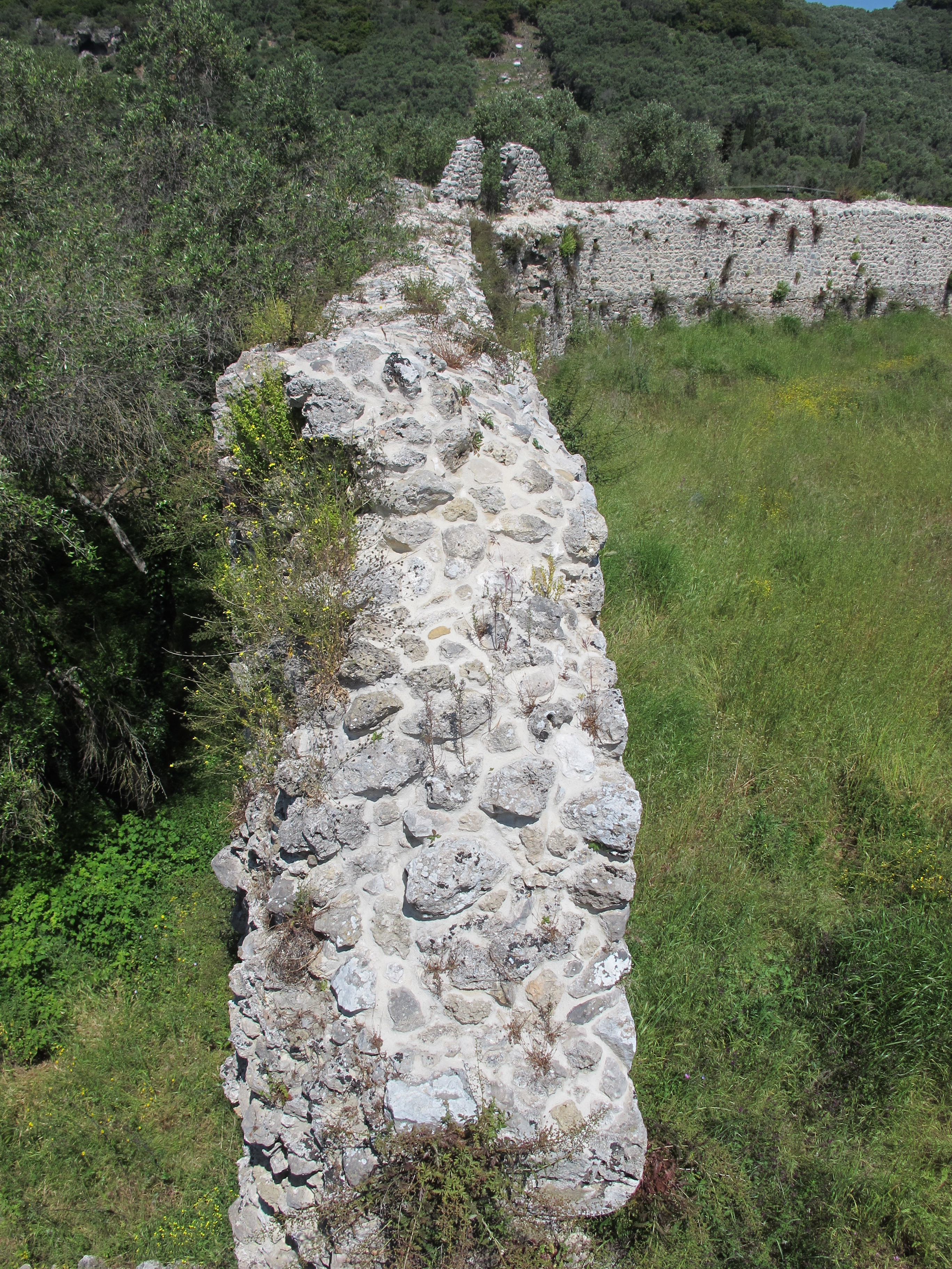 Wall detail of Gardiki castle